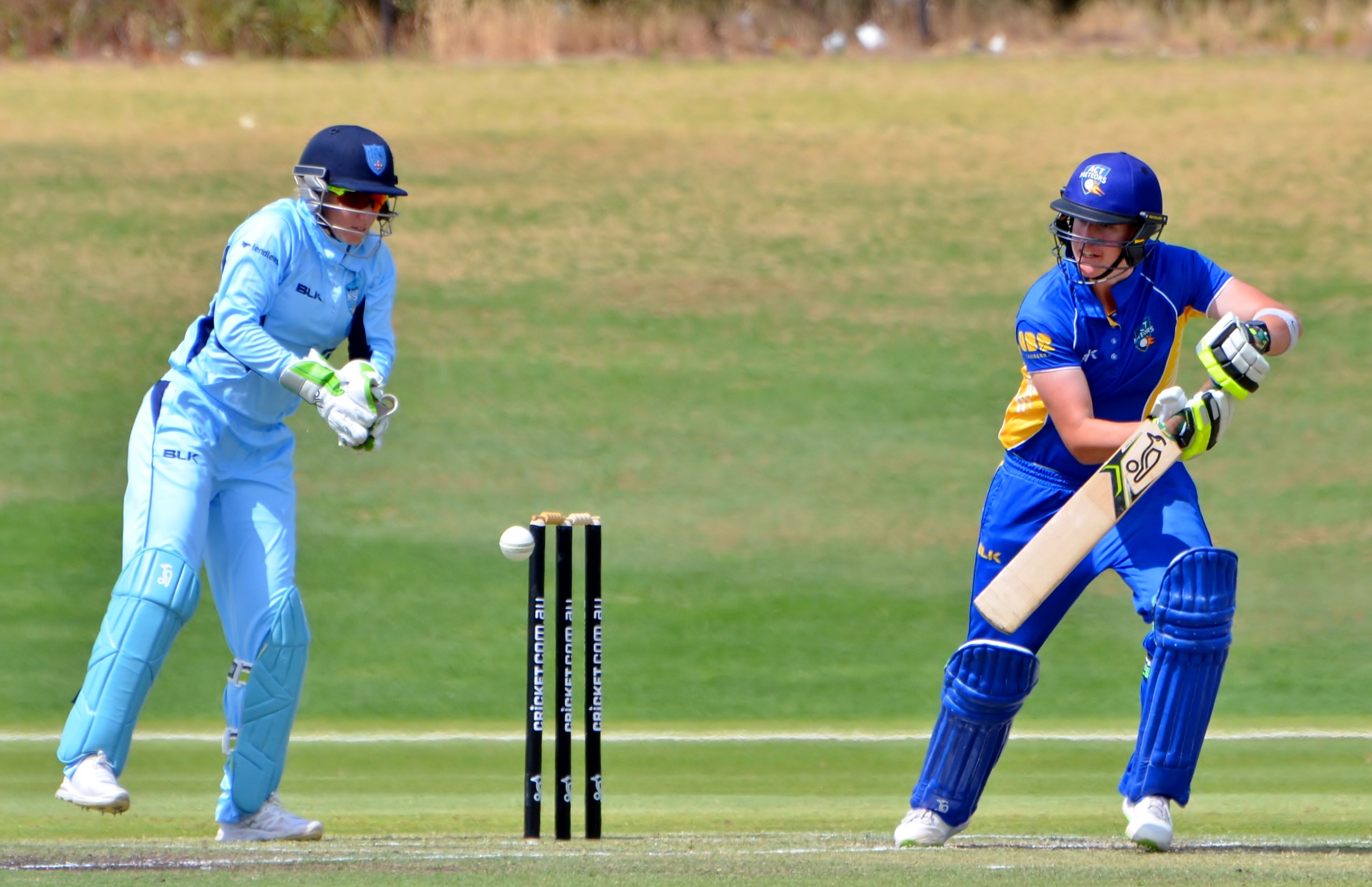 All-rounder Claire Koski batting for the ACT Meteors against the New South Wales Breakers, in a WNCL top of the table clash at Murdoch University Sports Oval in Perth. The wicket-keeper is Alyssa Healy.